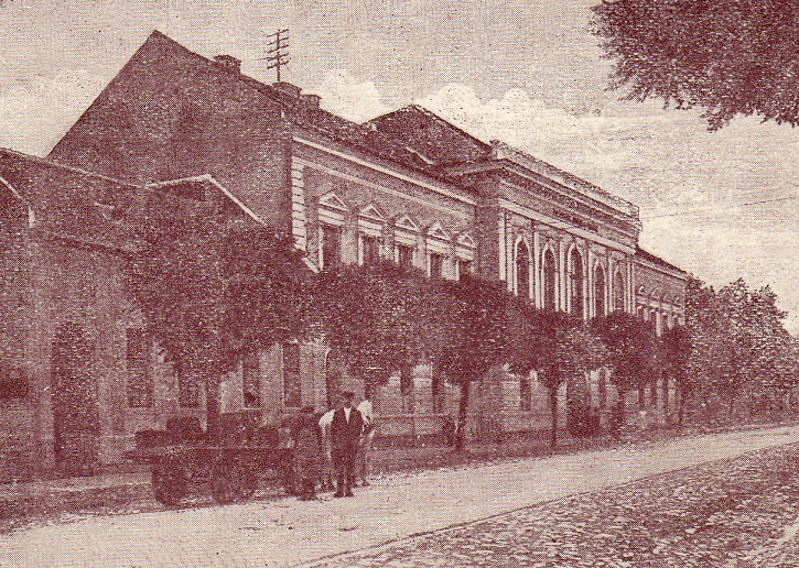 Făgăraș County Prefecture, illustrated in an early 20th century picture. The historical building was built in the 19th century and today it houses the police station of Făgăraș.